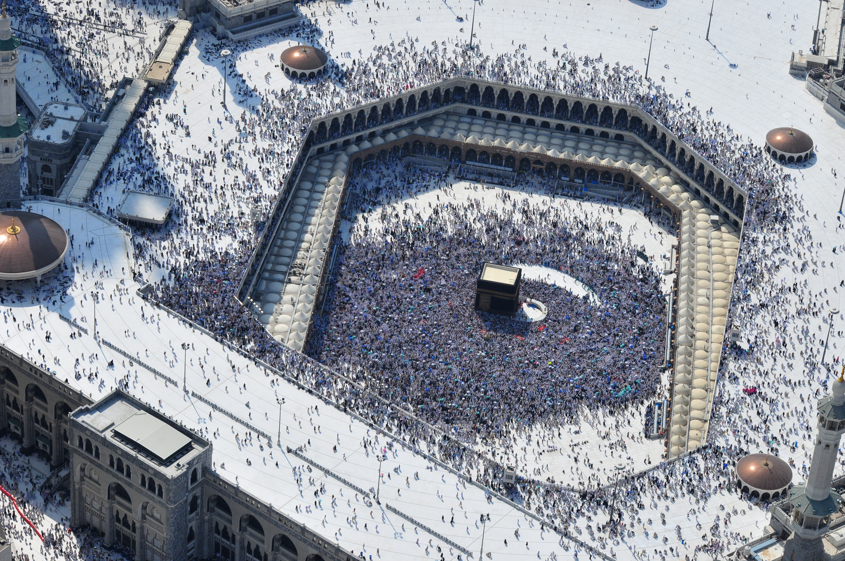 Pilgrims arround the Kaaba